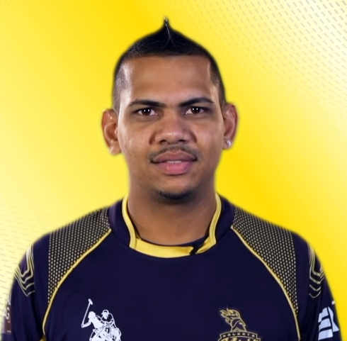 West Indies cricketer Sunil Narine, during IPL - 2014